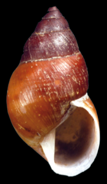 Photo of an apertural view of the shell of Bulimulus limnoides. The height of the shell is 22.2 mm.